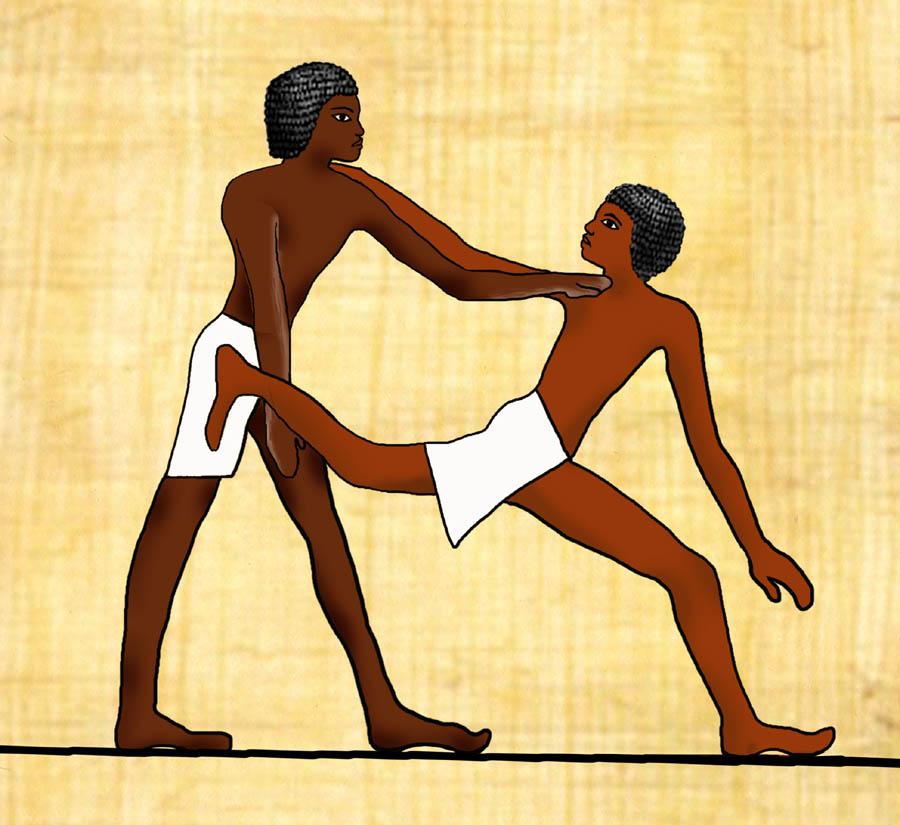 Nuba wrestling arts depected in Amenemhat's tomb, Row 1, Figure 13, East wall, Beni Hasan, Egypt. Nuba Wrestling martial art technique from tomb of Amenemhat, 12th Century Egypt, at Beni Hasan. Illustrated by Nijel Binns.